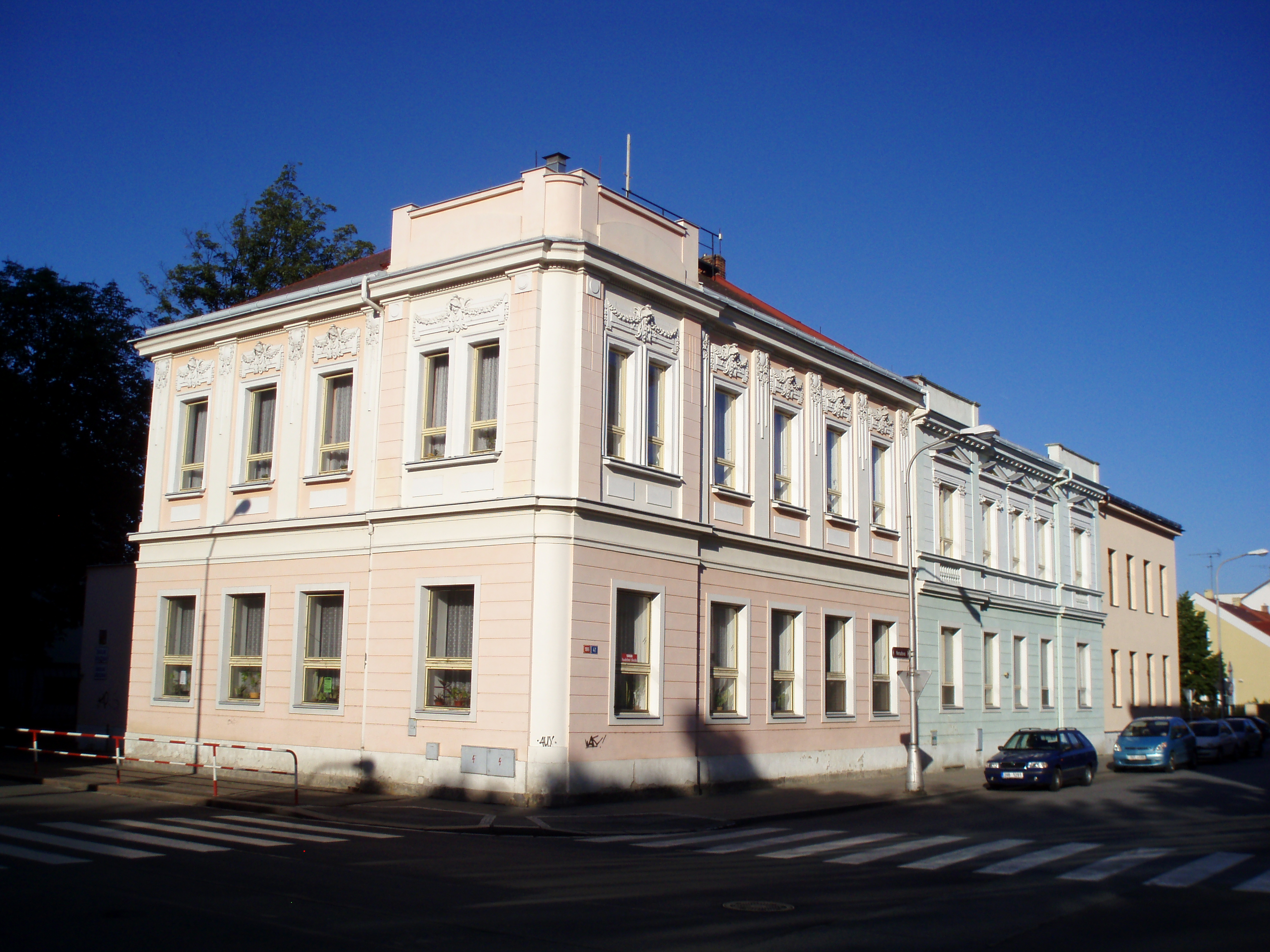 Former restaurant Chicago in Hradec Králové (Czechia)